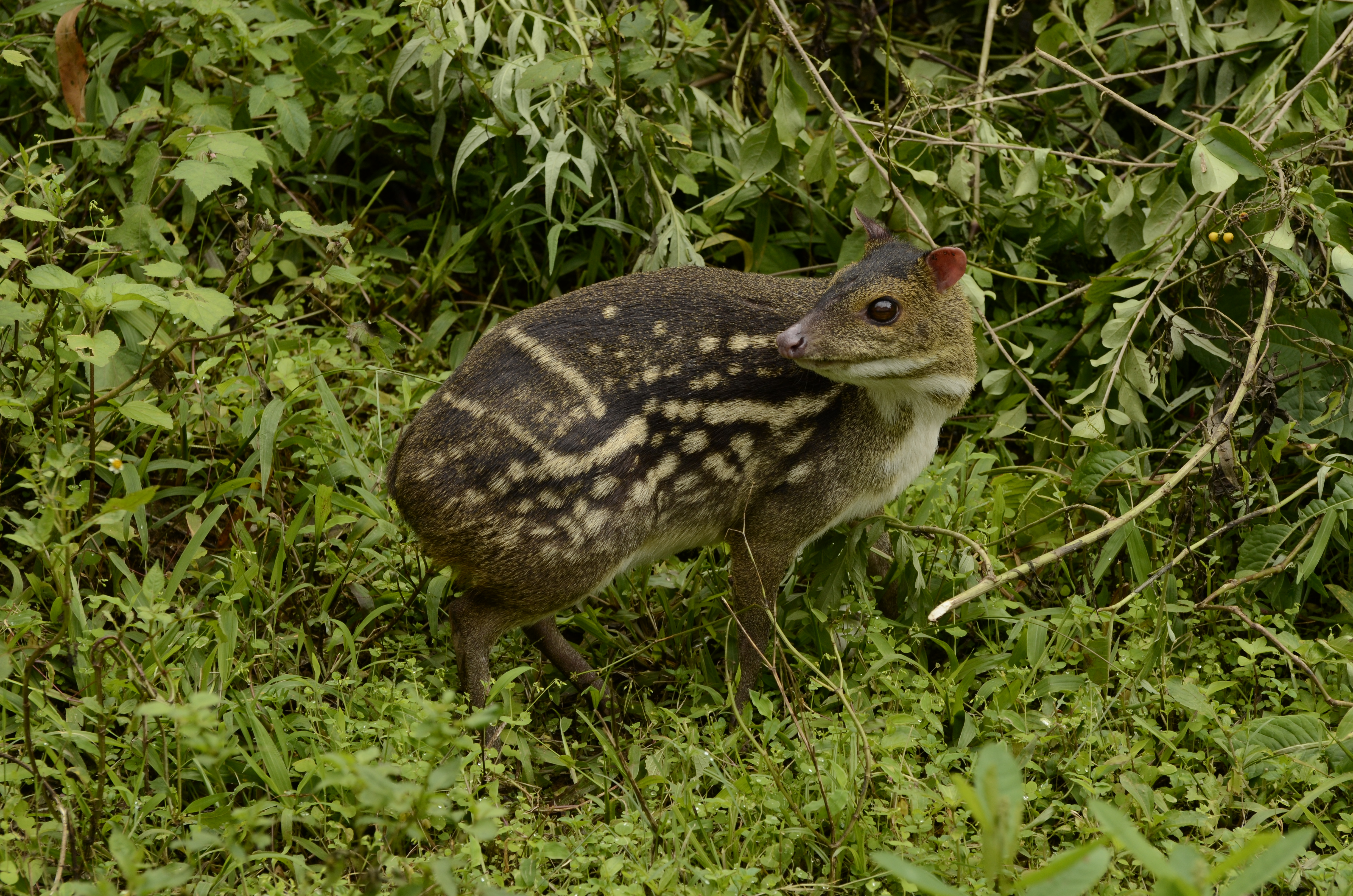 Indian spotted chevrotain Moschiola indica Mouse deer from the Anaimalai hills